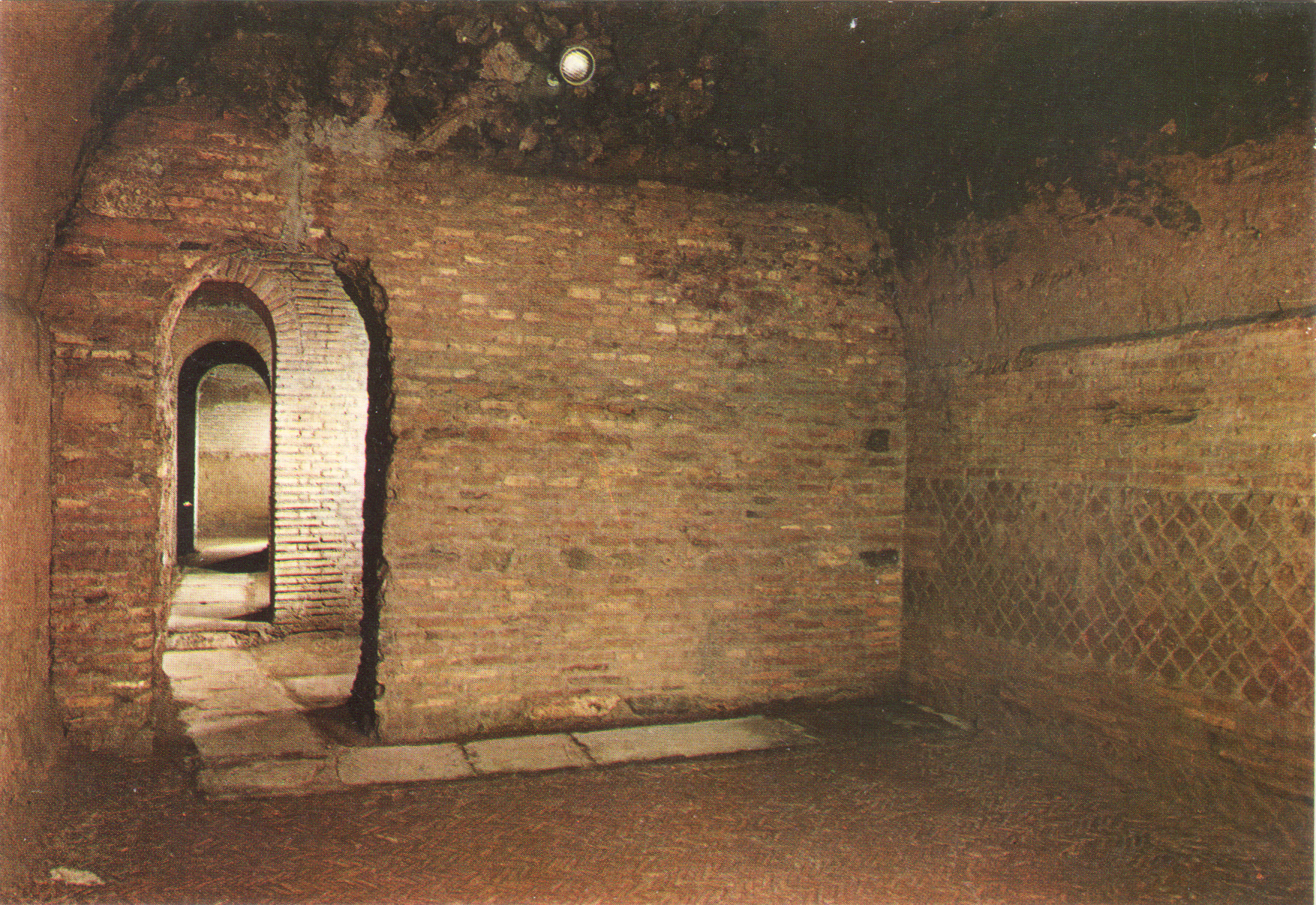 Room in the roman building of Ist century called "horreum"